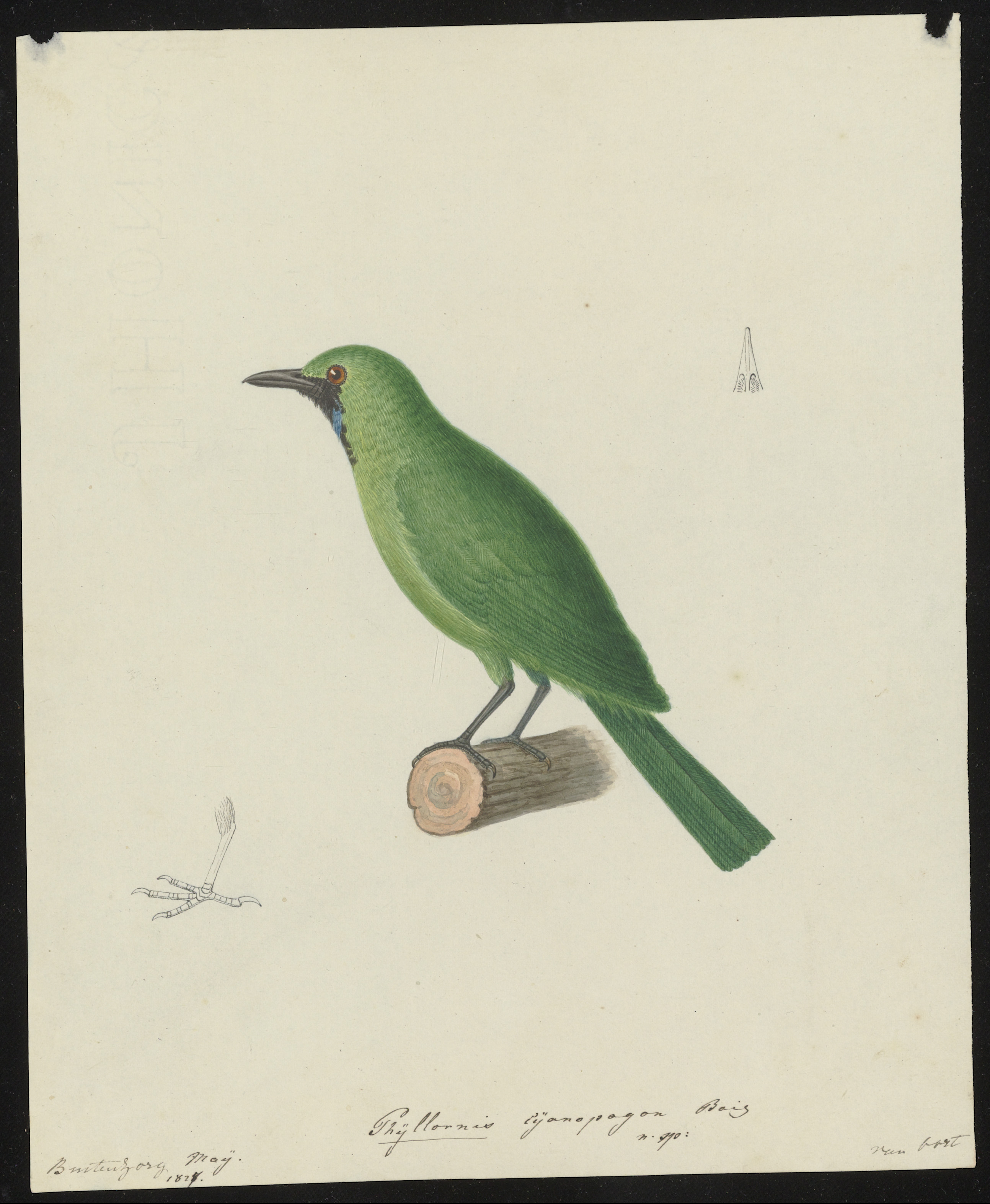 Drawing of a bird + sketch beak and leg